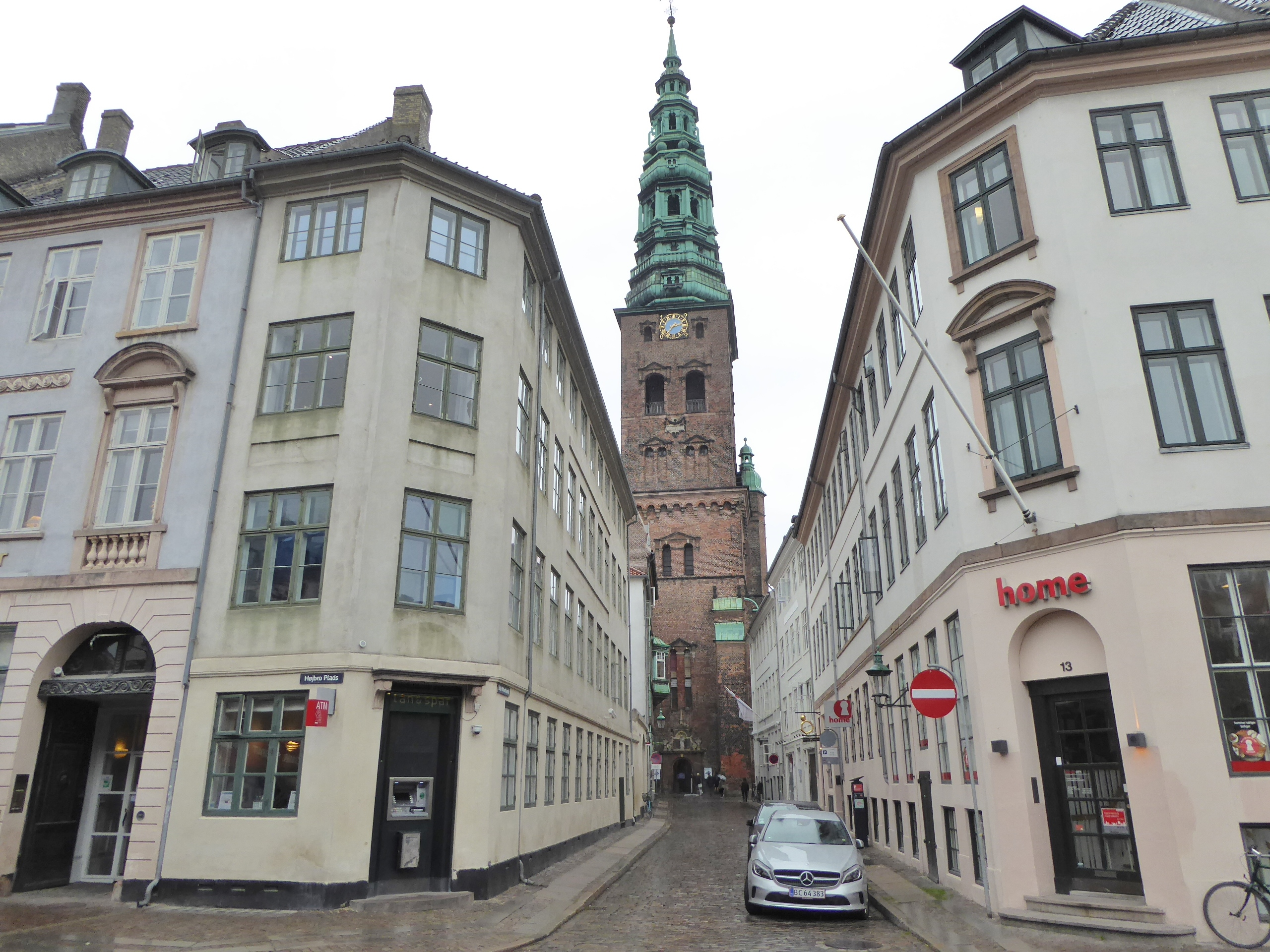 The street Lille Kirkestræde at Højbro Plads with the tower of Kunsthallen Nikolaj in Indre By in Copenhagen.